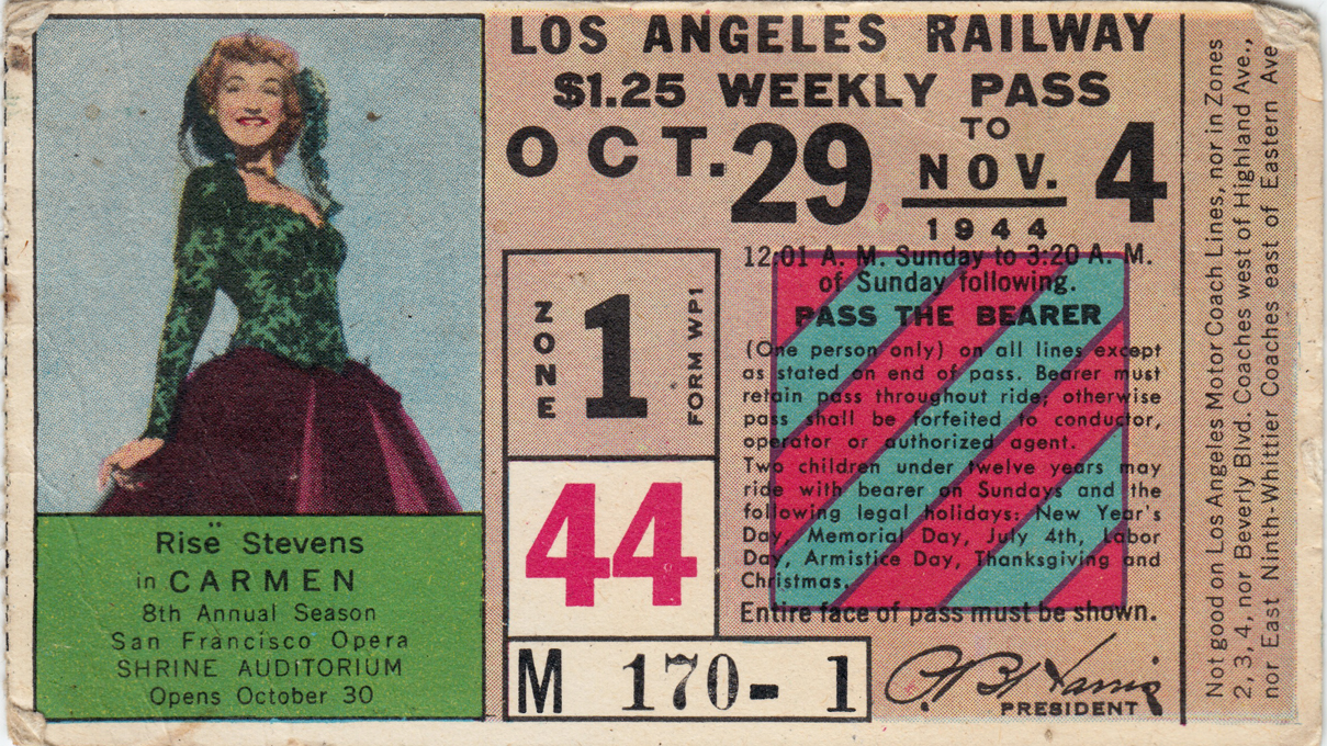 Los Angeles Railway Weekly Pass, Oct. 29 - Nov. 4, 1944